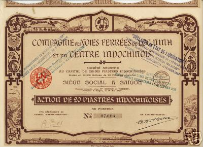 Saigon-Loc Ninh Railway construction bond.